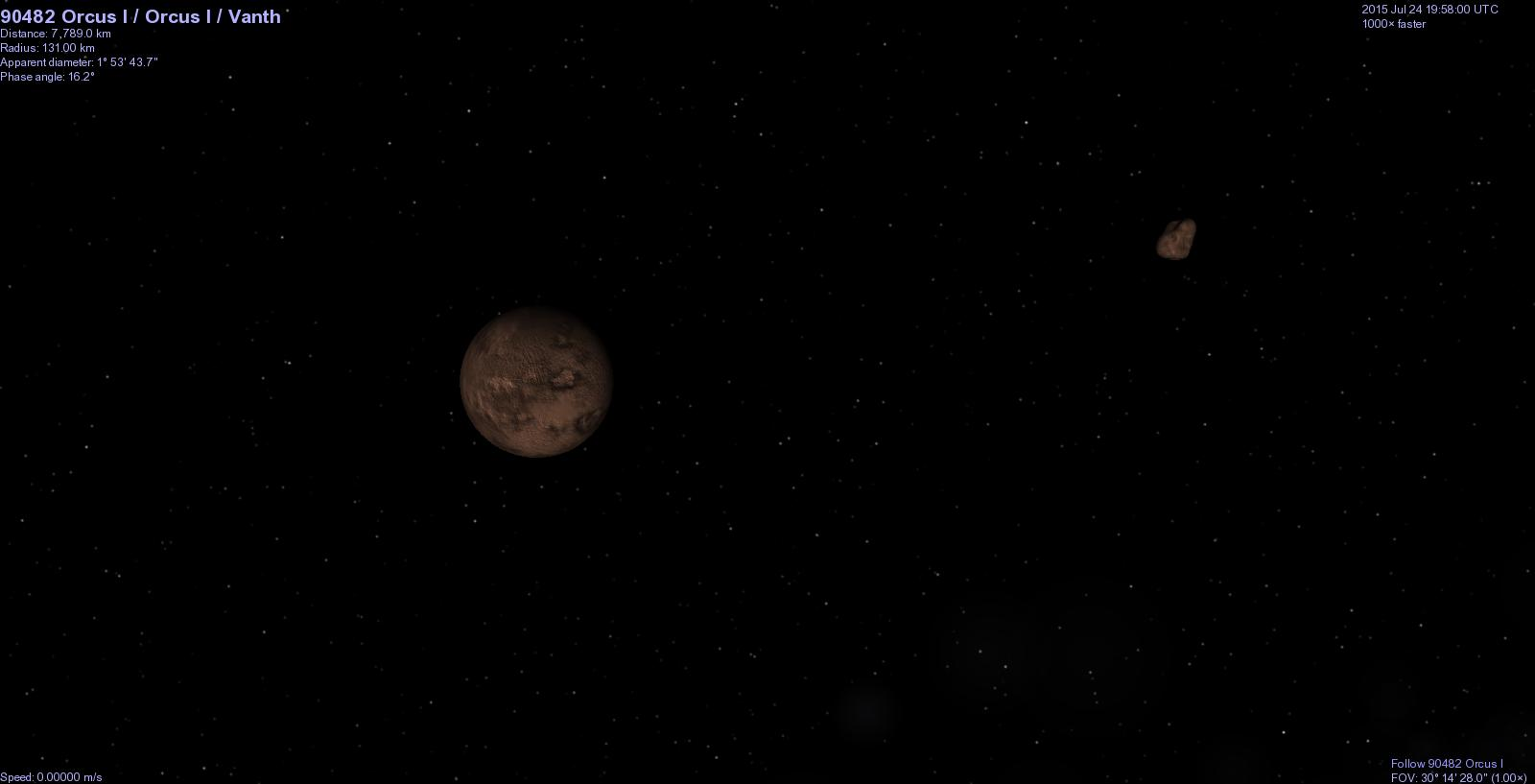 This is an impression of Orcus and its large moon, Vanth viewed in Celestia.